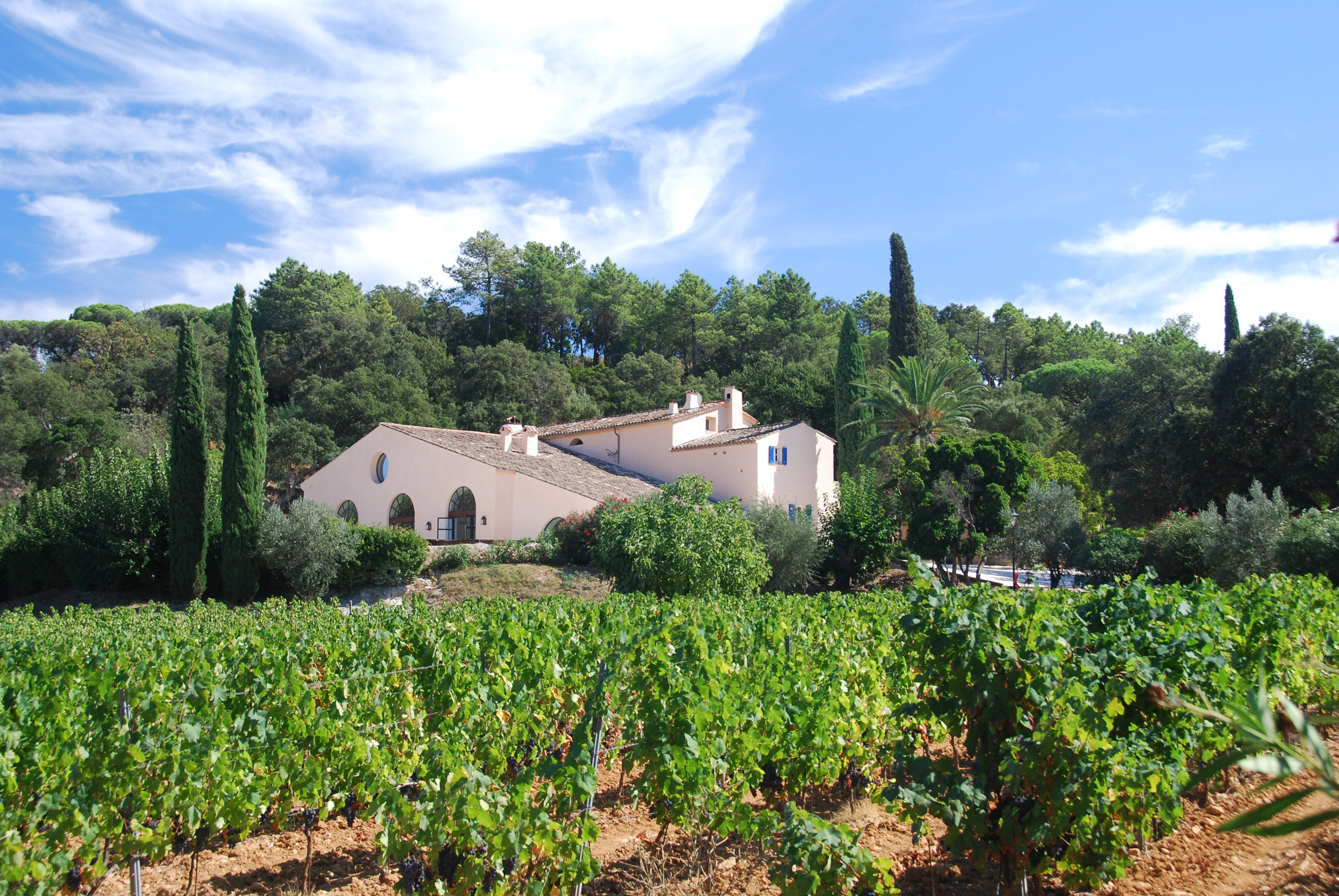 A vineyard in Saint-Tropez